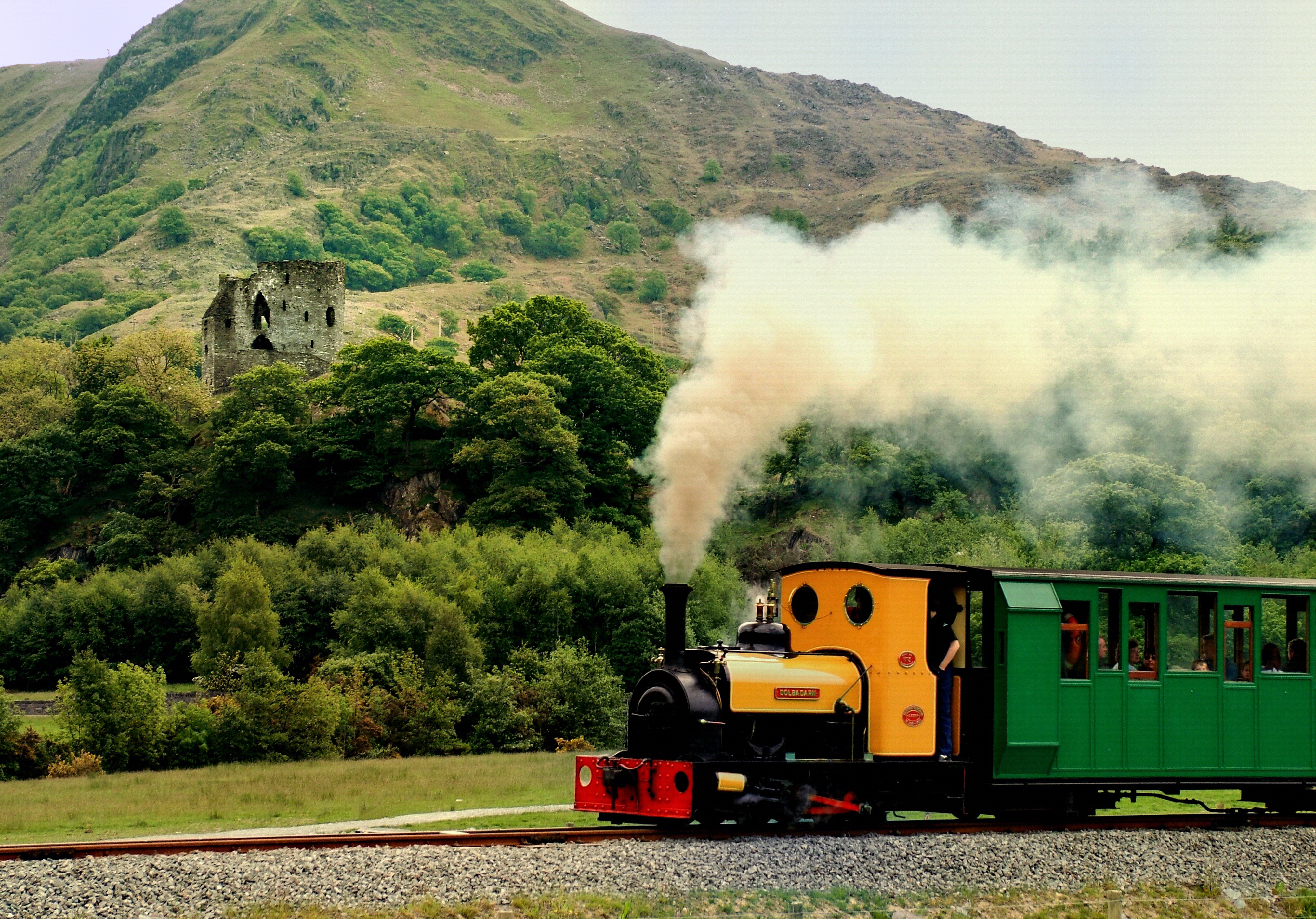 Llanberis Lake Railway's Dolbadarn (built 1922) passing Dolbadarn Castle (built sometime before 1230).